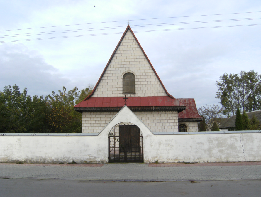 Old Catholic Mariavite Church in Wierzbica